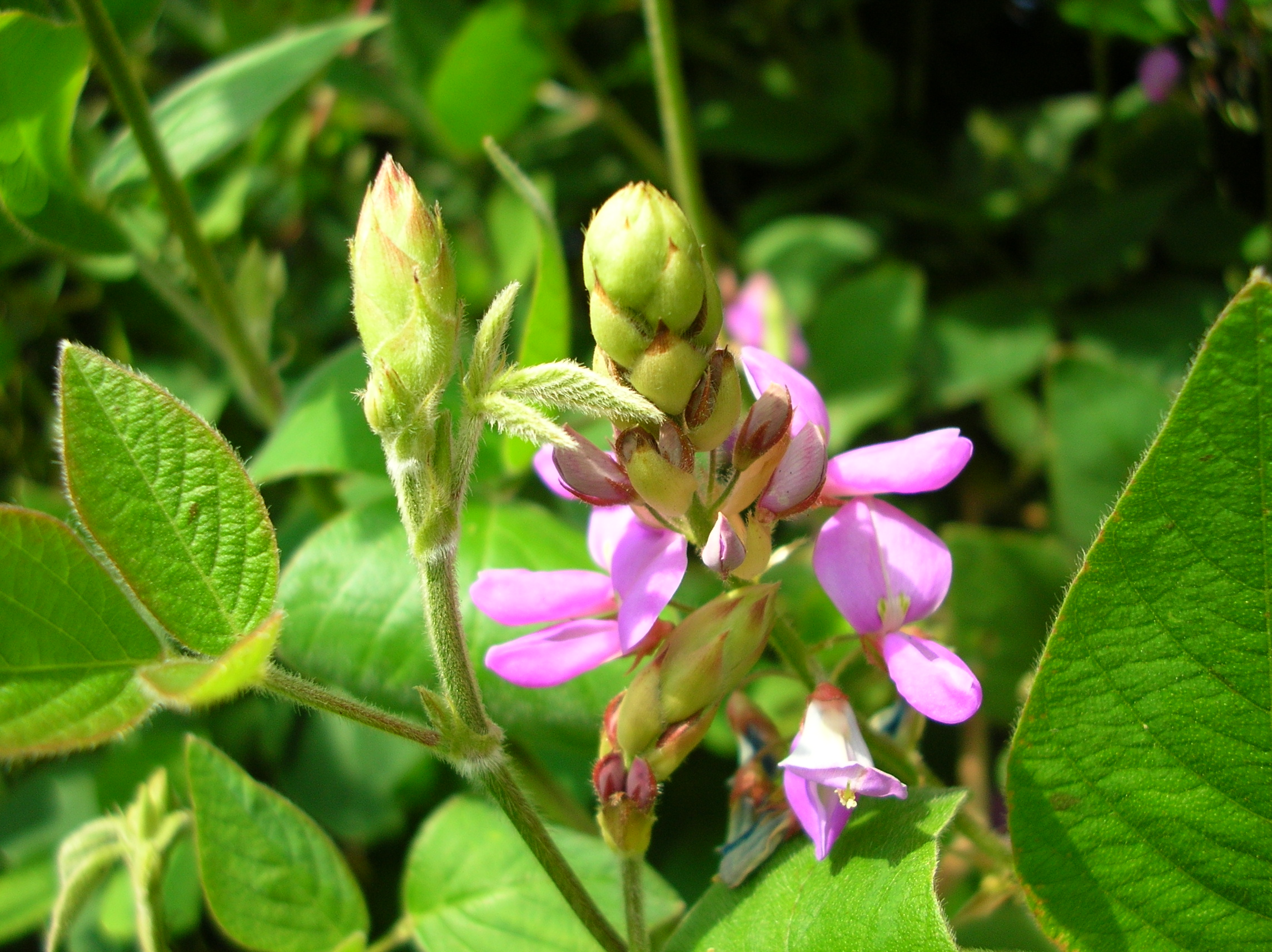 Desmodium intortum (flowers). Location: Maui, Makawao Forest Reserve